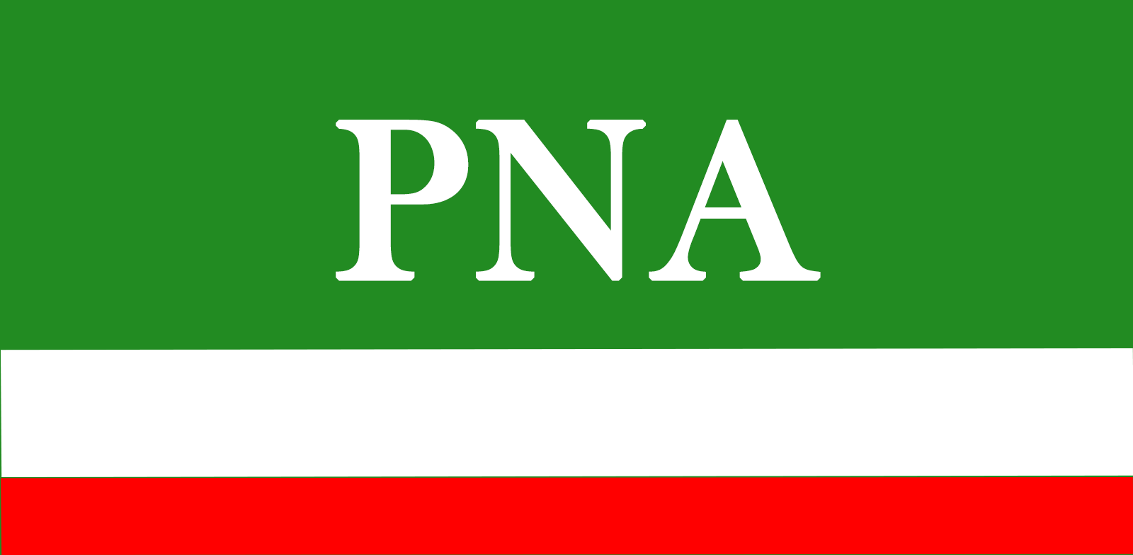 Flag of Pakistan National Alliance.